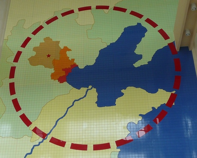 A diagram depicting the area of TEDA, the Tianjin Economic Development Area located in Tianjin, China.